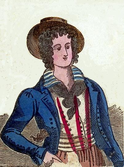 Wood engraving entitled ANNE JANE THORNTON, THE FEMALE SAILOR, published 1835, with hand colour.